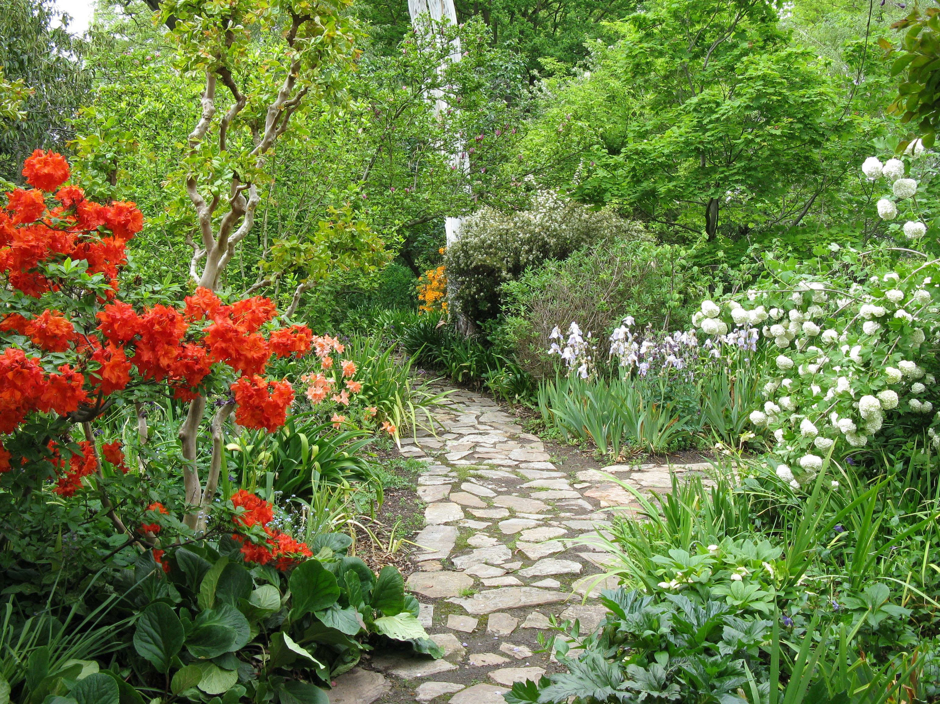 Section of Lady Gowrie's Garden in Government House, Yarralumla, Canberra, ACT